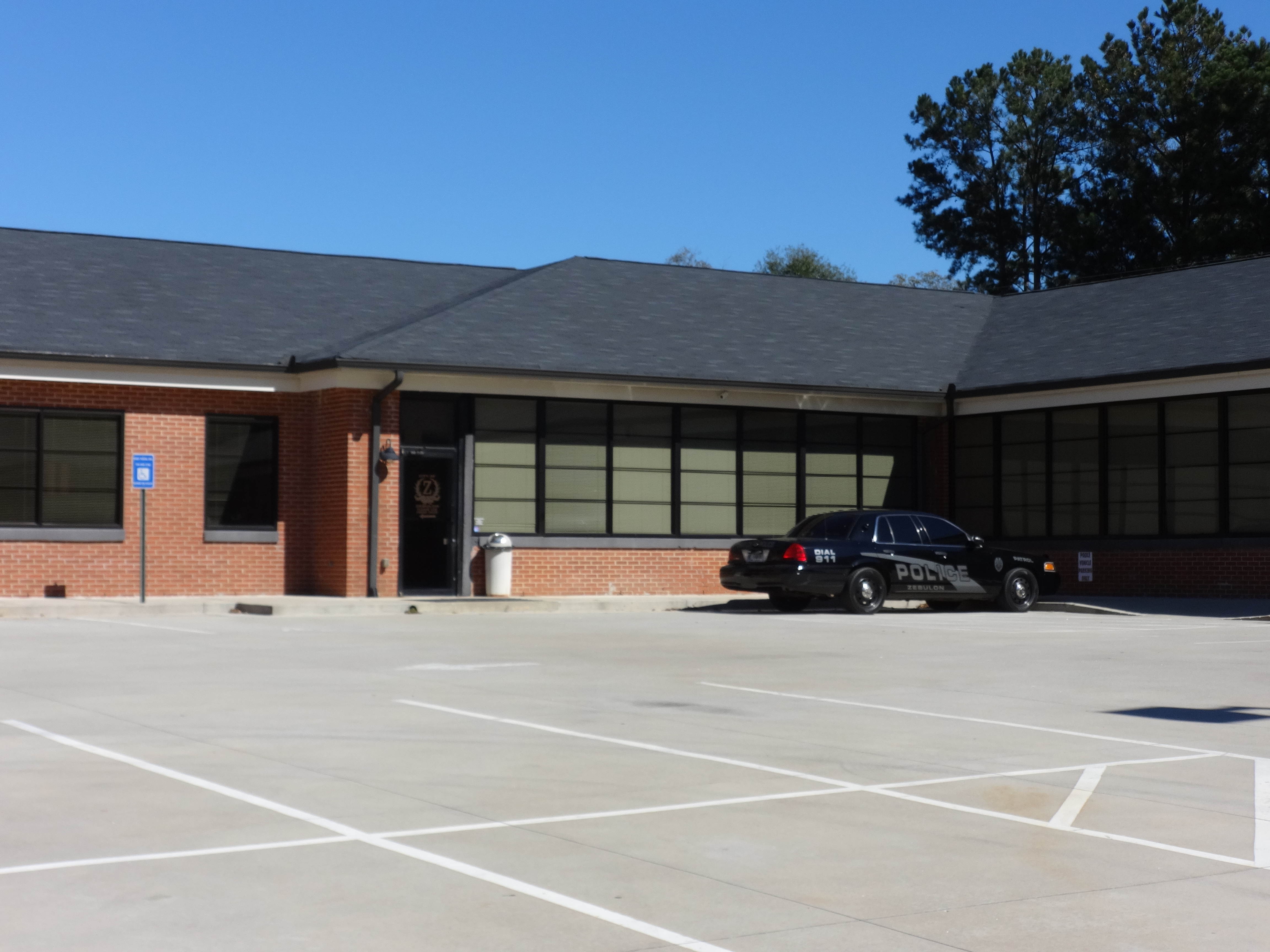 Zebulon Police Station, Zebulon, Pike County, Georgia